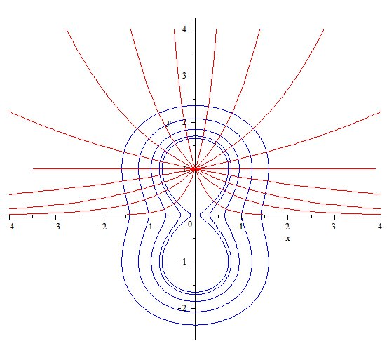 Example of orthogonal families